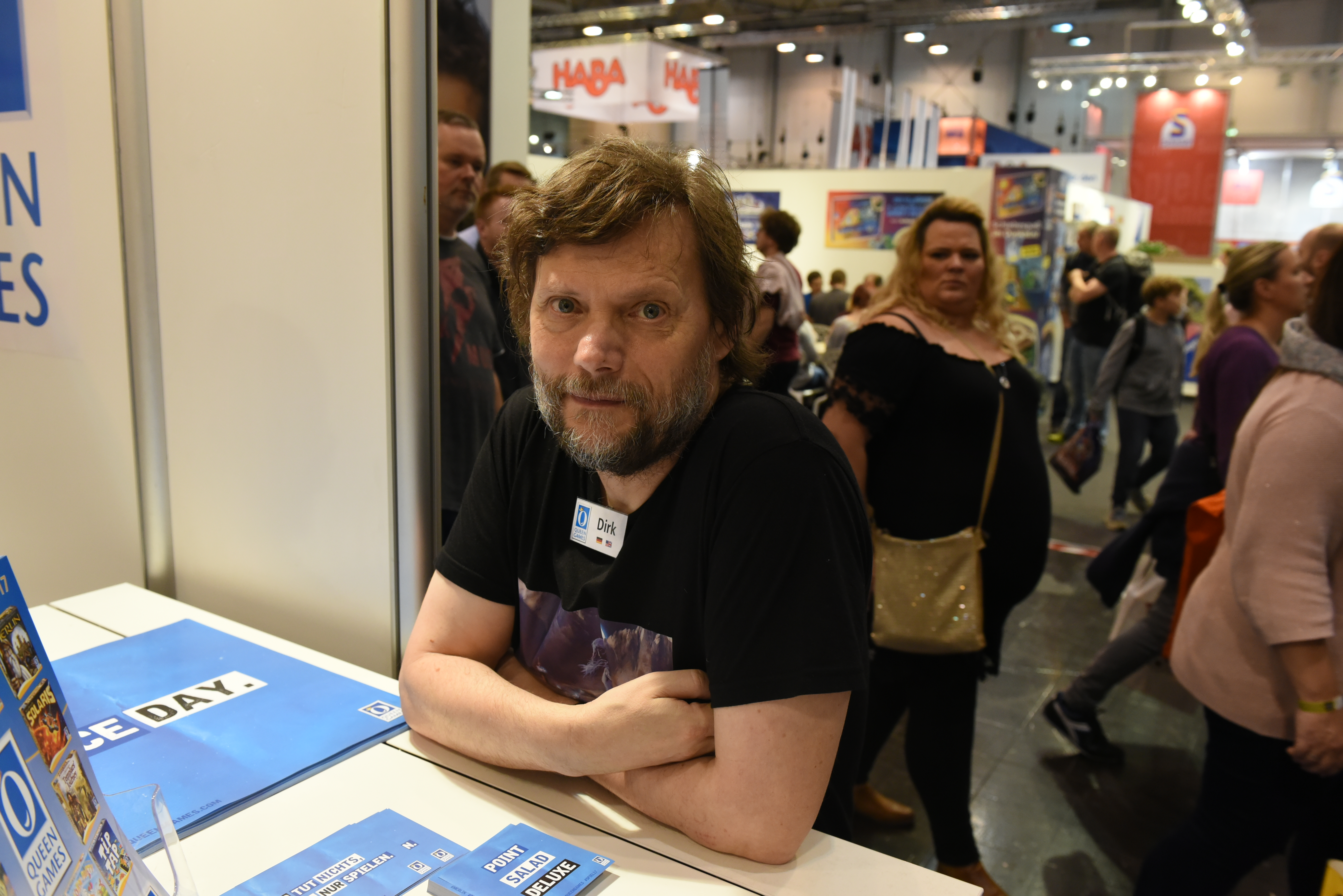 The game author Dirk Henn at the board game fair Spiel '17 in Essen, Germany.